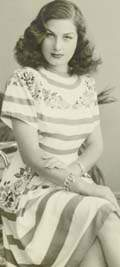 A picture for Layla Fawzi (1925- 2005), an egyptian Drama actress